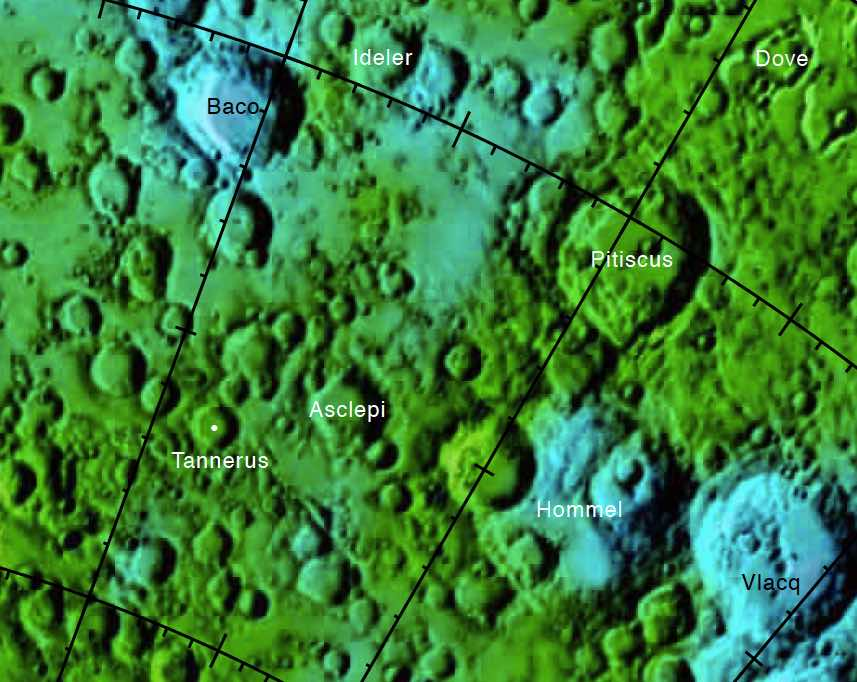 Part of the South Pole chart (Moon 1:10 million-scale Shaded Relief and Color-coded Topography)